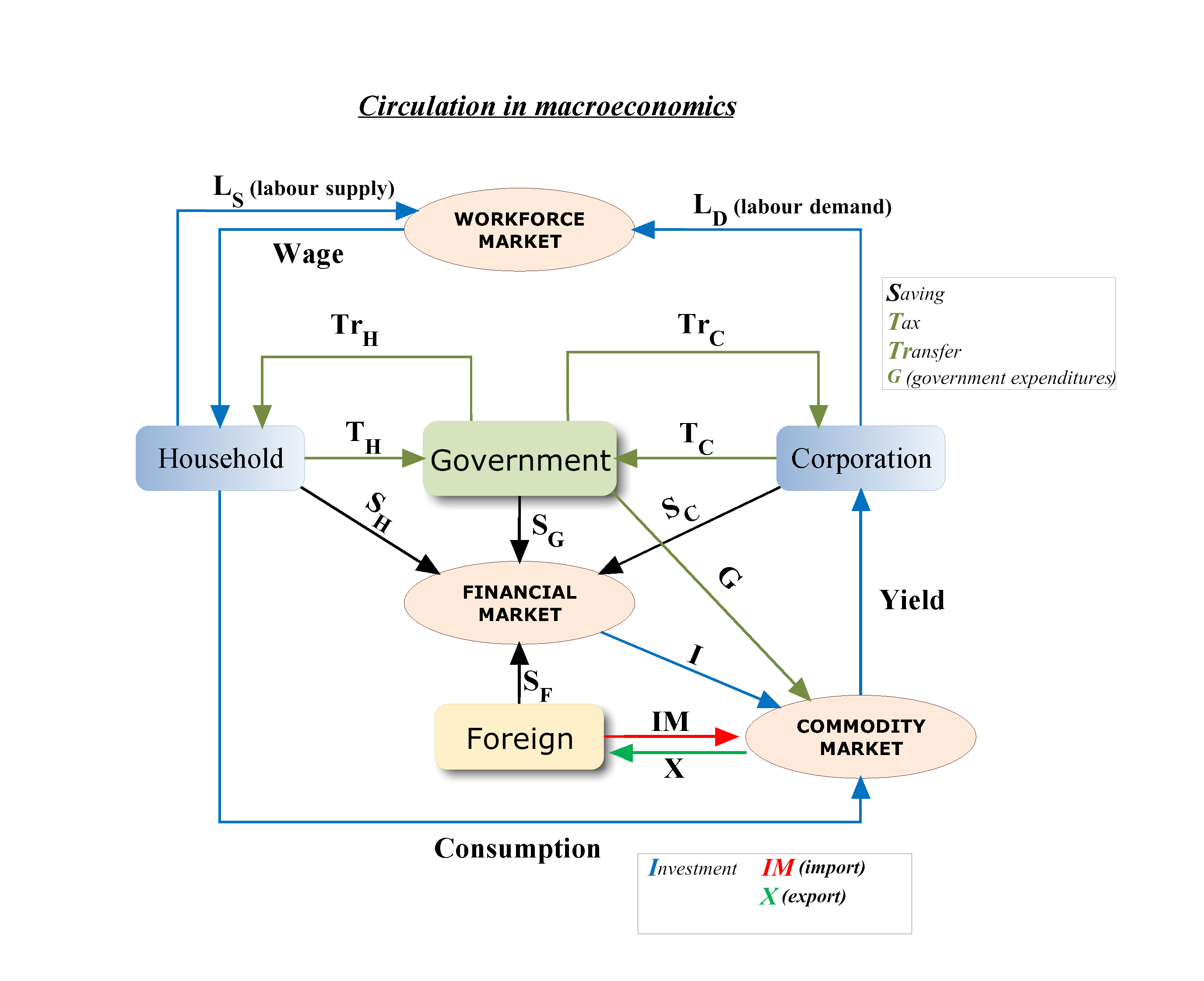 Circulation in macroeconomics